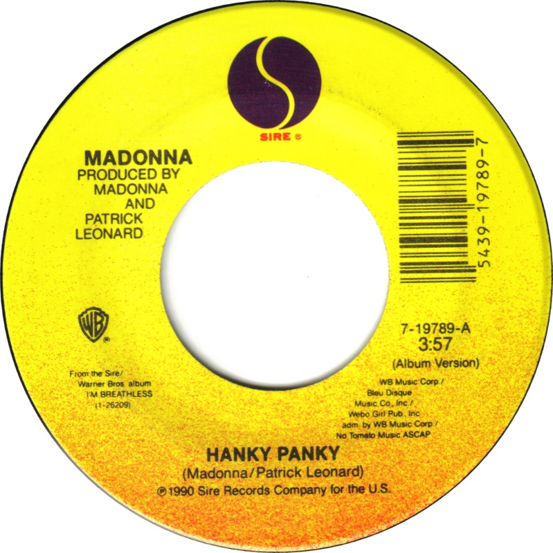 A-side label of U.S. vinyl release of "Hanky Panky" by Madonna